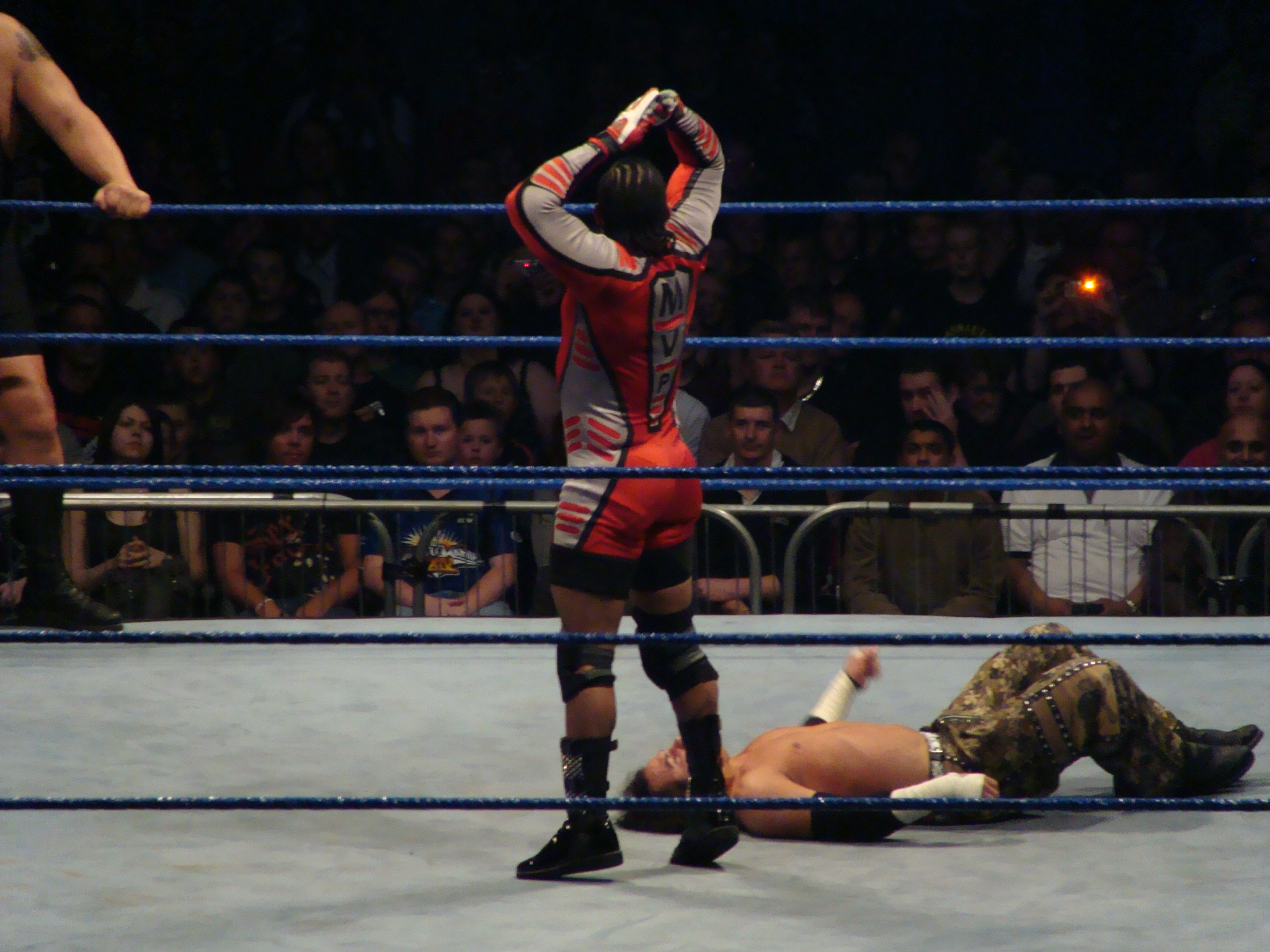 Montel Vontavious Porter performing the Ballin Elbow on Matt Hardy